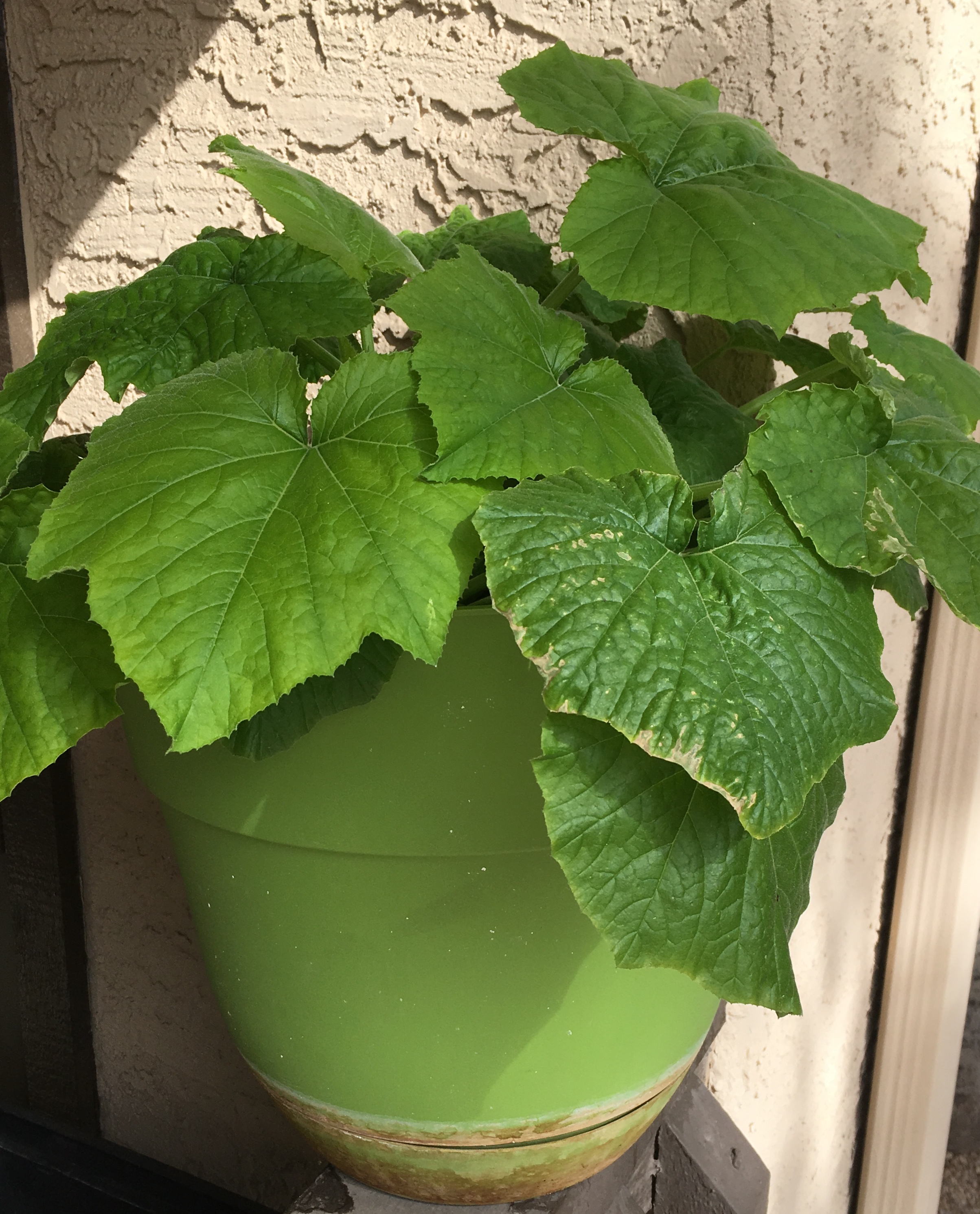 This is a zucchini plant that is on an outside balcony growing in the spring time in Arizona. It is only 4 weeks old and will start producing zucchini very soon